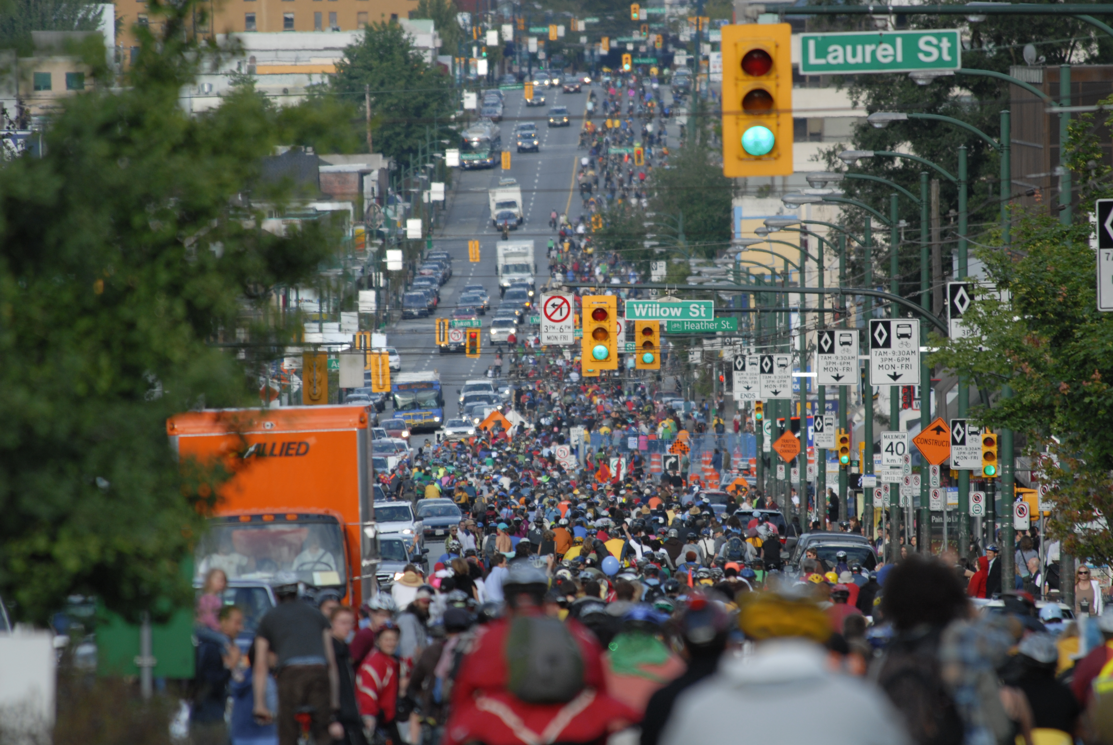 On the last Friday of every month, bicyclists gather for Critical Mass: to celebrate cycling and to assert cyclists' right to the road. The June Critical Mass in Vancouver, BC, Canada is normally the largest ride, pulling thousands of riders and temporarily shutting down vehicular traffic in large swathes of the city. The June 2007 ride shutdown Lion's Gate bridge for 30 minutes and the Stanley Park Causeway that leads to it for 60 minutes.